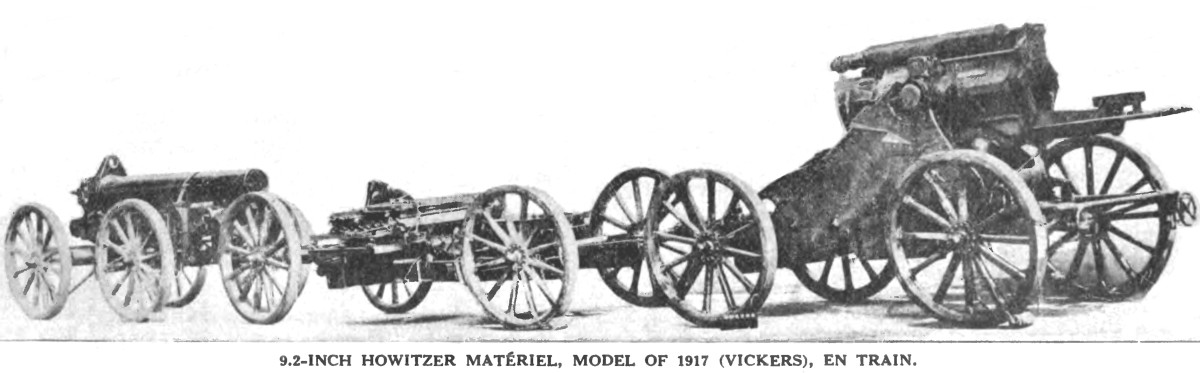 Photograph of components of 9.2 inch howitzer on transport wagons.